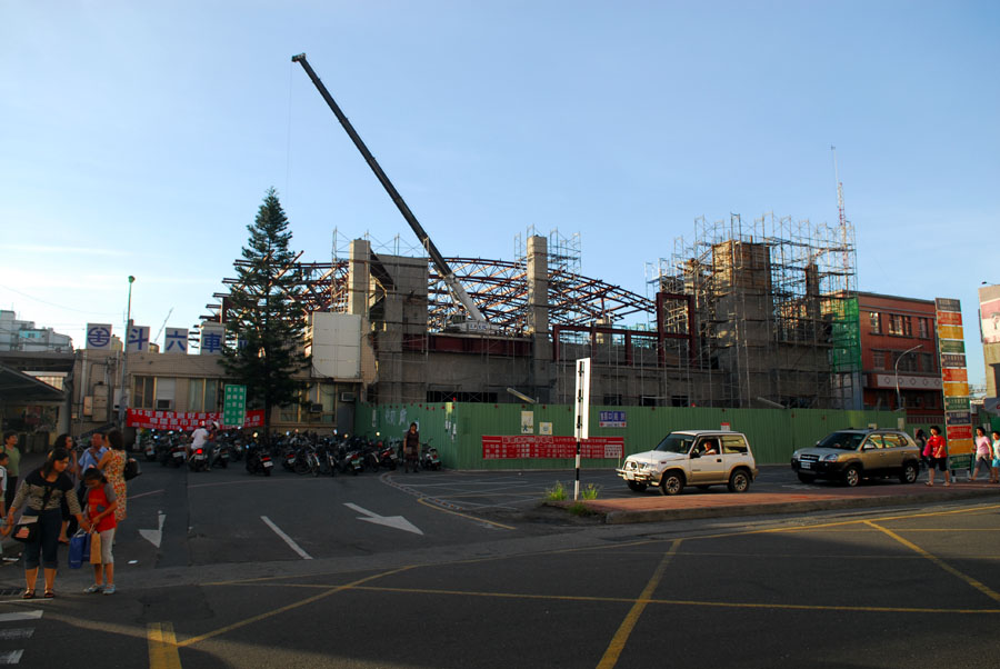 ShihLiou Station is a major train station of Taiwan's Western main rail line. It's the main station of both the DouLiou City and the whole YunLin County, and is the only county/city level station not named after its county name (YunLin). The original 2nd generation station building was demolished in 2006, and the new modern building is under construction as seen in the photo.